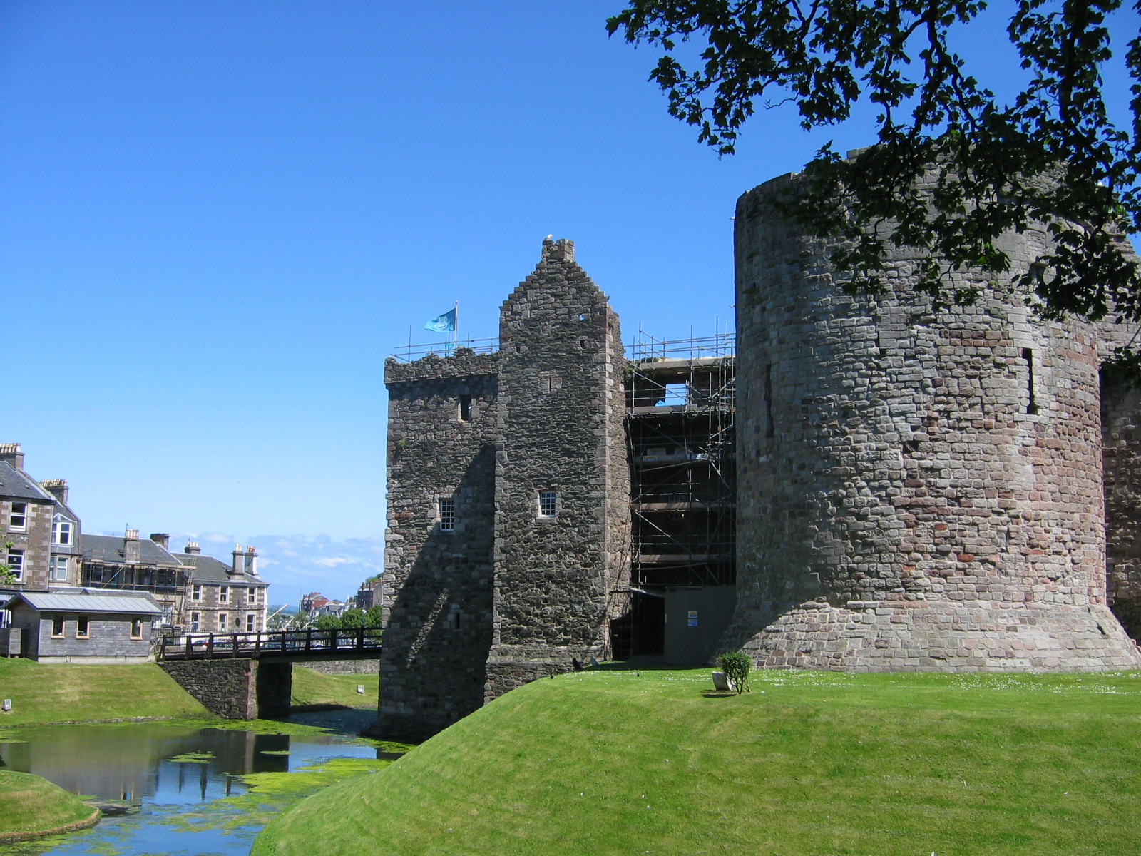 North-west view of Rothesay Castle, Bute, Scotland, showing the gatehouse and 'Pigeon Tower'